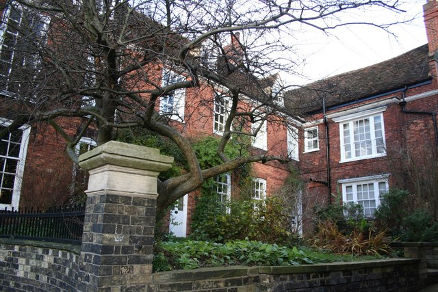 3 Pottergate. Largely mid to late 18th century house on Pottergate with traces of its Medieval origins inside. It was once home to George Boole mathematician, philosopher and inventor of Boolean Algebra .... the basis of modern computer arithmetic. A plaque 657131 facing Pottergate recognises this famous Lincolnshire son.